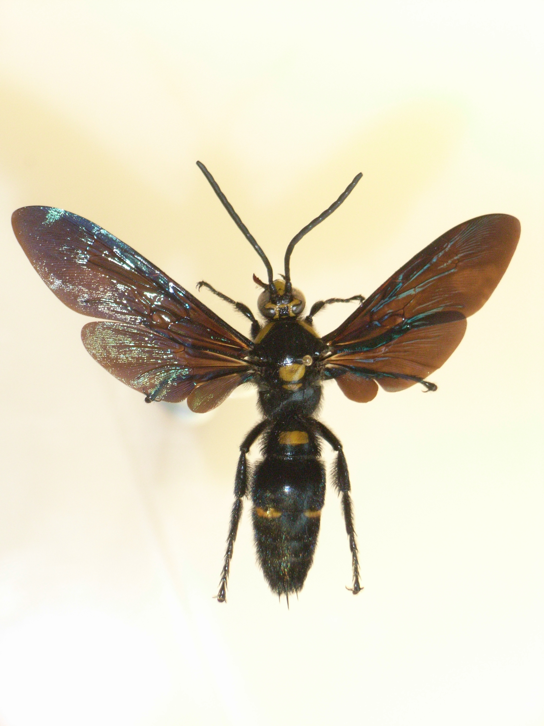 Megascolia procer (Illiger, 1908). Male. East Java. Ex coll. Felix Stumpe